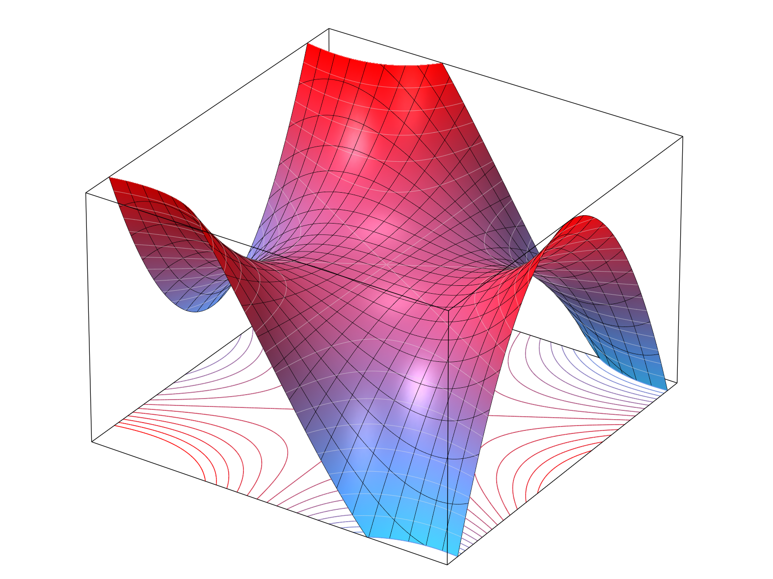 A monkey saddle surface, with the equation z = x 3 − 3 x y 2 {\displaystyle z=x^{3}-3xy^{2}\,} . Done in MuPAD.